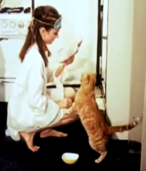 Cropped screenshot from trailer of Breakfast at Tiffany's (1961)